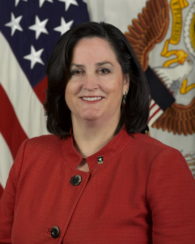 Official photo of Assistant Secretary, Katherine Hammock